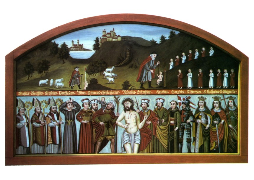 Painting of the Fourteen Holy Helpers, in the upper part with the only remaining depiction of ruined castle of Dobl, town of Winzer, Lower Bavaria. Restaurated and photographed by Alois Lieberwein. The Helpers from left to right: Blaise (Blase, Blasius) Denis (Dionysius) Erasmus (Elmo) Pantaleon (Panteleimon) Vitus (Guy) Cyriacus Christopher (Christophorus) Agathius (Acacius) Eustace (Eustachius, Eustathius) Giles (Aegidius) George (Georgius) Barbara Catherine of Alexandria Margaret of Antioch